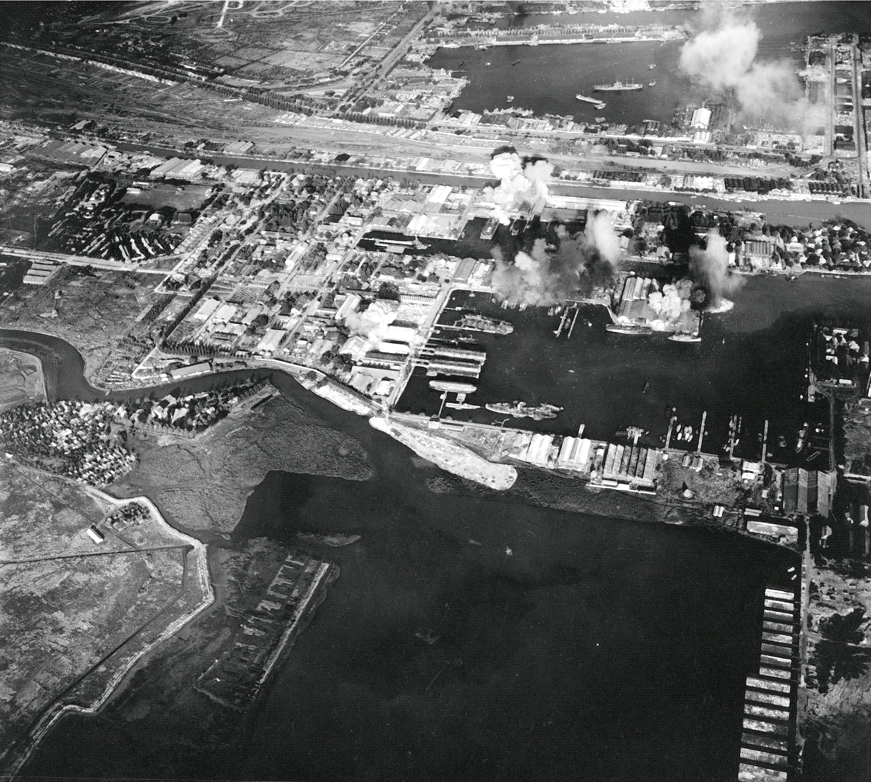 View of the attack on Surabaya, Netherlands East Indies, on 17 May 1944 by aircraft from the aircraft carriers USS Saratoga (CV-3) and HMS Illustrious (87) during "Operation Transom".